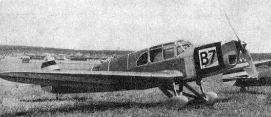 Klemm Kl 32 photo from L'Aerophile Salon 1932